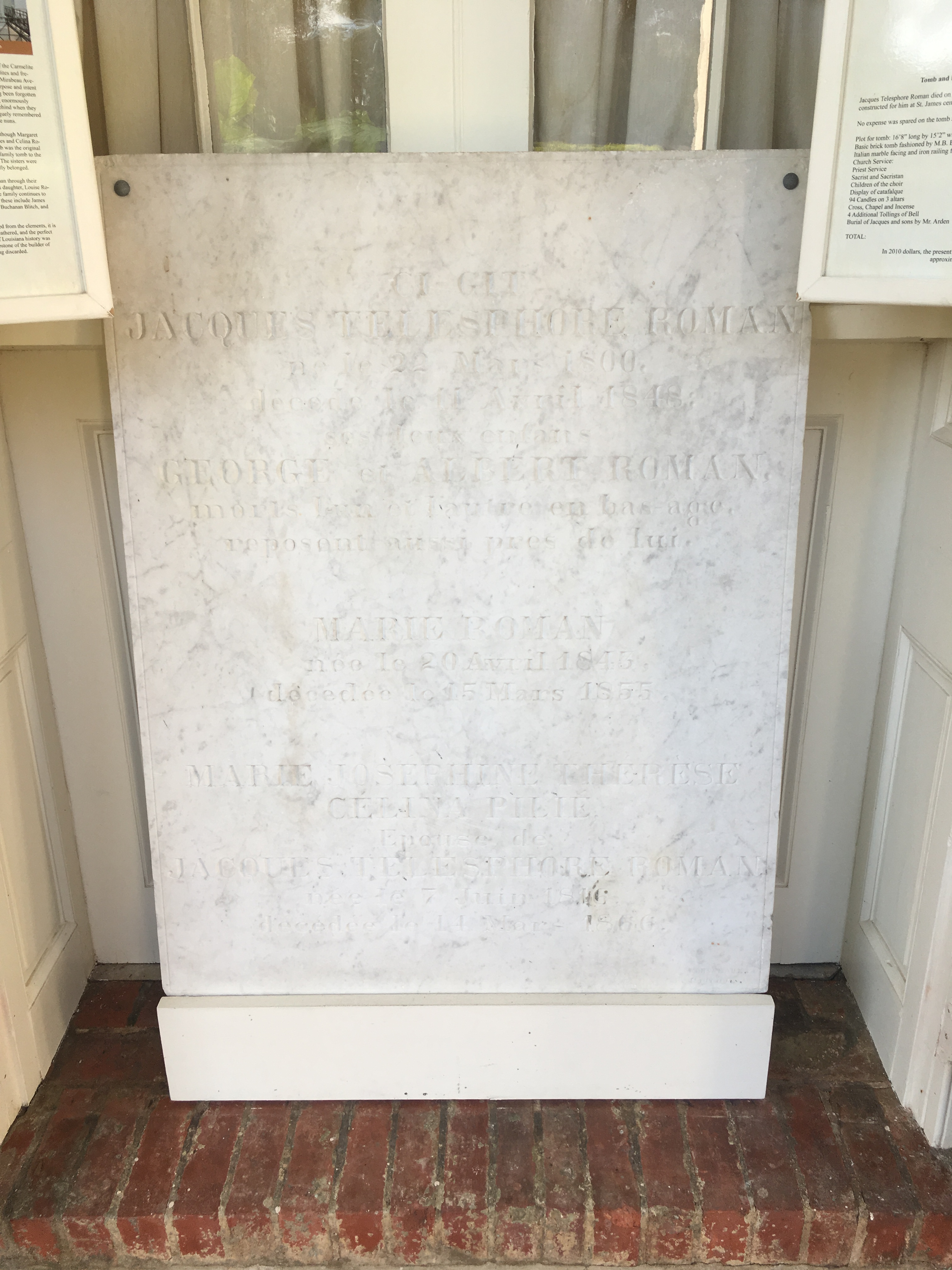 The recovered gravestone of the original family who owned Oak Alley Plantation.